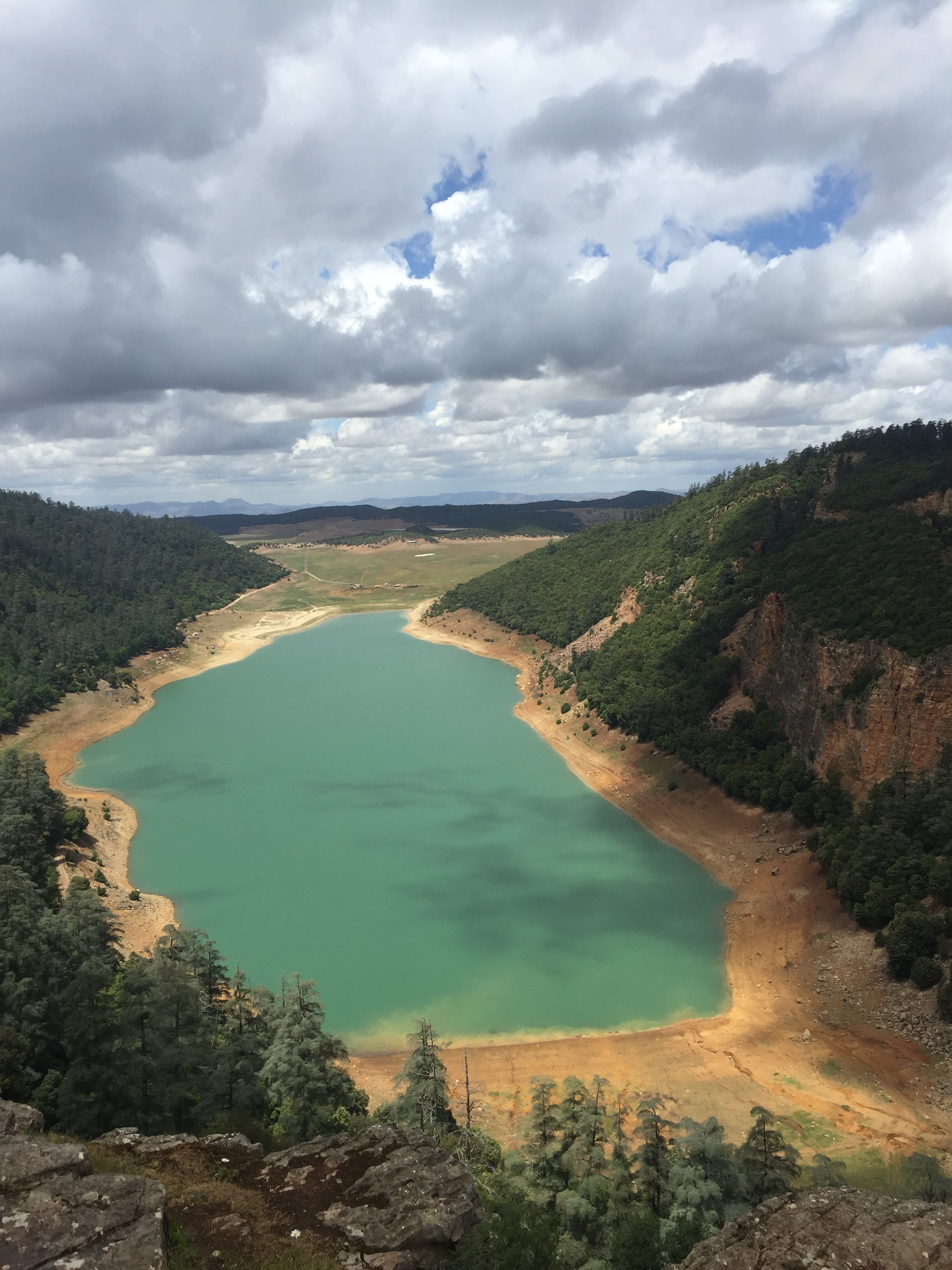 Agelmam Azagza